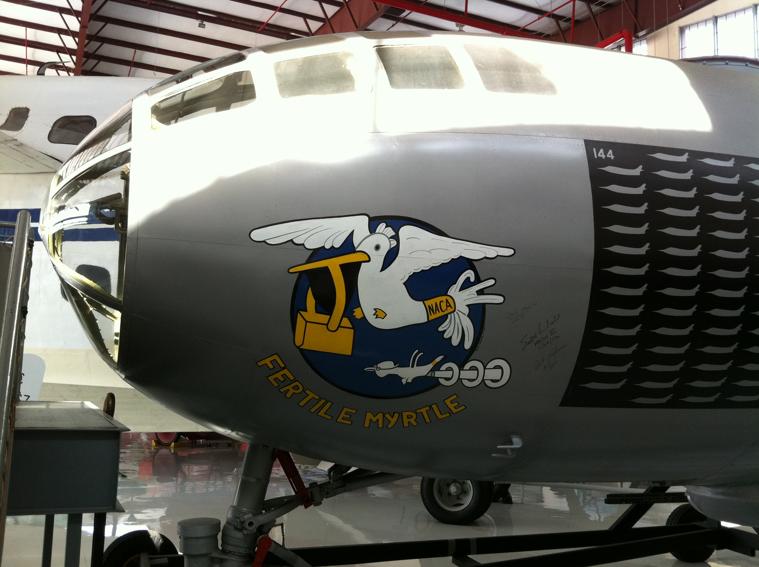 Forward fuselage of the B-29 Superfortress "Fertile Myrtle" on display at Fantasy of Flight in Polk City, FL.